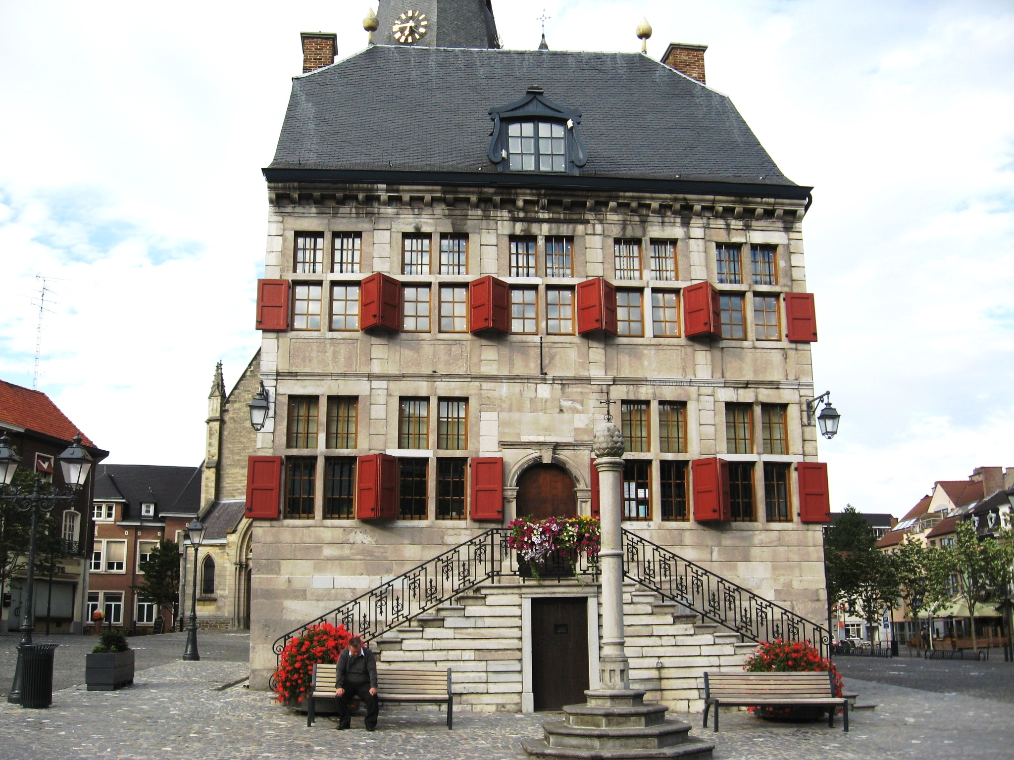 The town hall of Bilzen (1686)